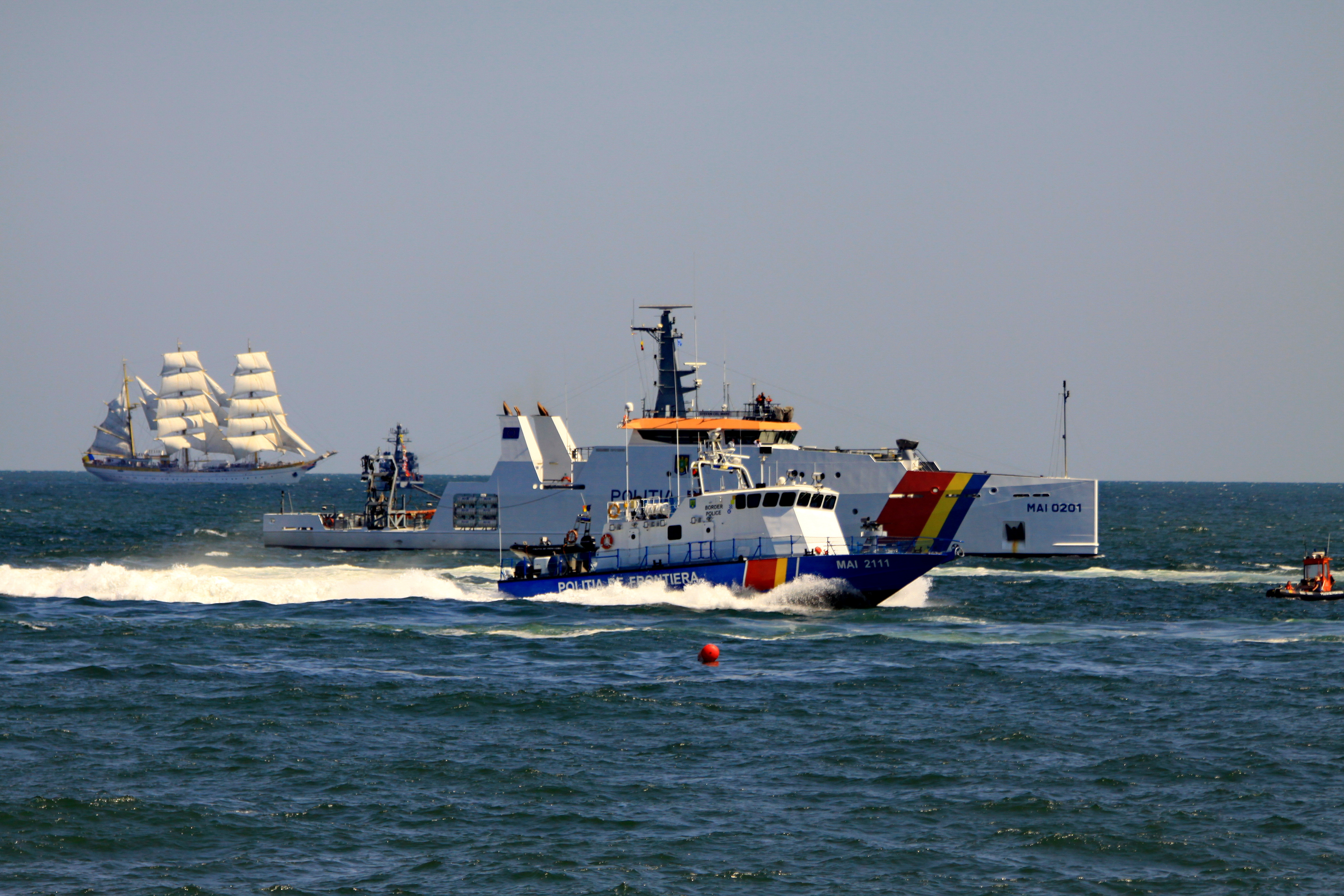 Romanian Navy official party 15-08-2018 Constanta: school sailing ship „Mircea” and two Border guard speedboats („OPV Ştefan cel Mare” and „MAI 2111”)